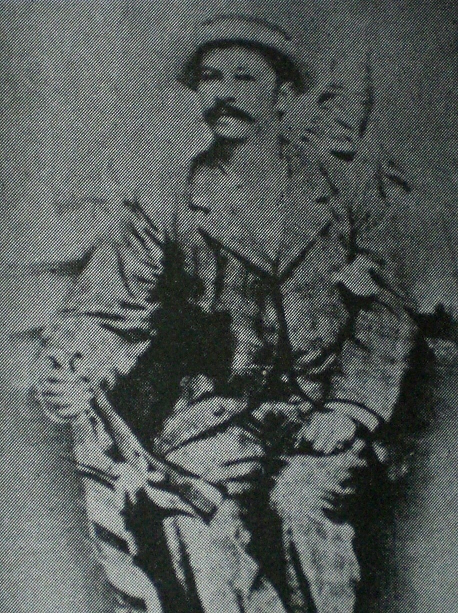 Juan Vicente in 1899